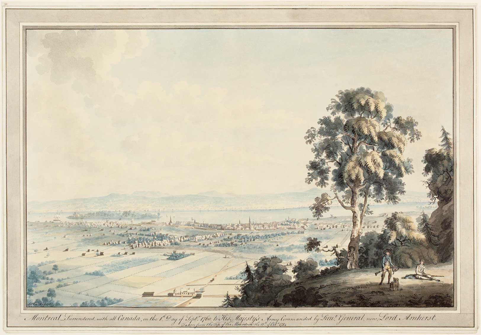 Montreal as viewed from Mount Royal in 1784